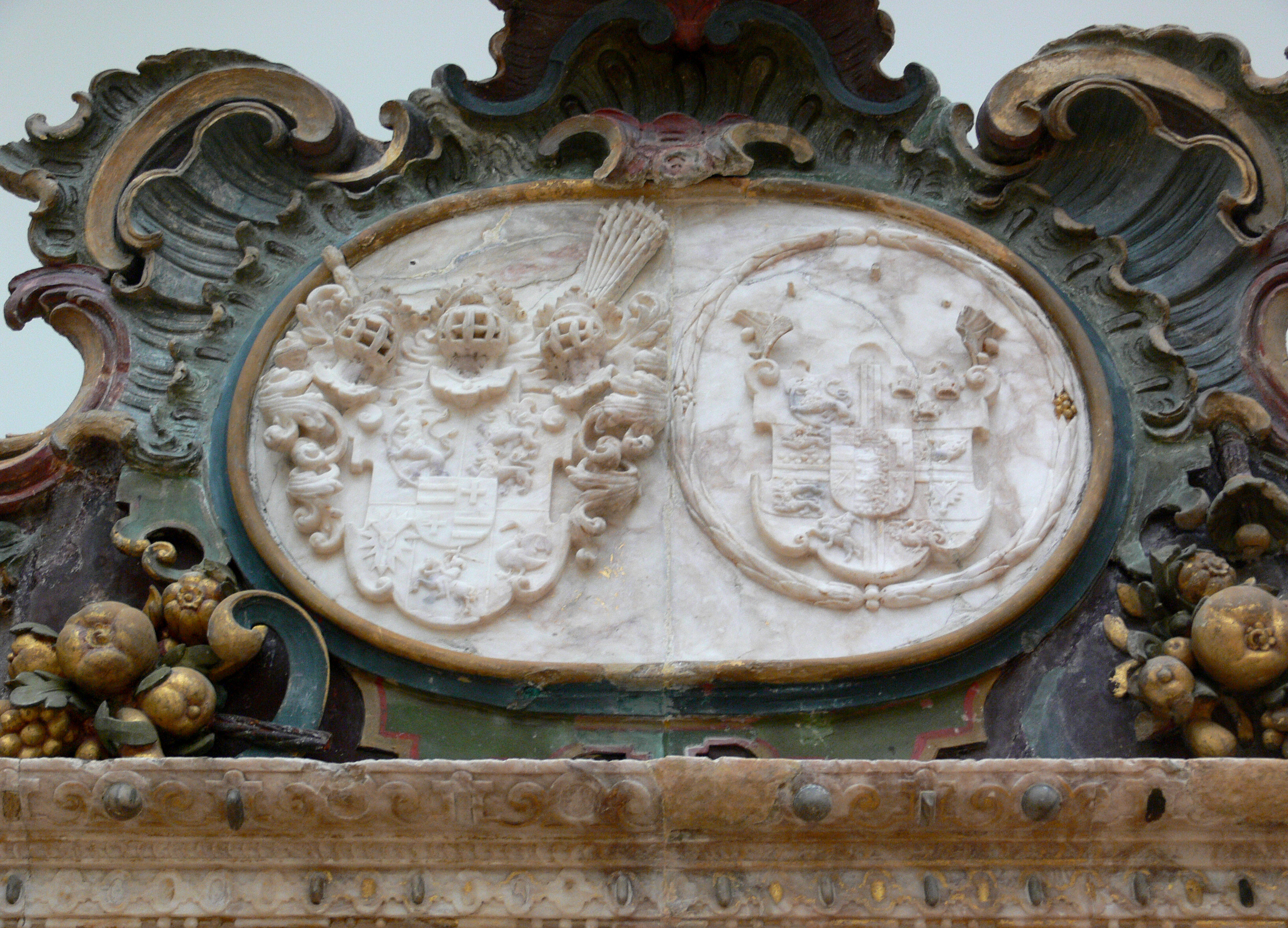 Henni Heidtrider: Fireplace from Husum Castle, 1612–1615, alabaster and sandstone, showing the coats of arms of duke enJohn Adolf, Duke of Holstein-Gottorp and his wife Augusta of Denmark, daughter of Frederick II of Denmark. Skulpturensammlung (Inv. AE462, acquired in 1919), Bode-Museum Berlin